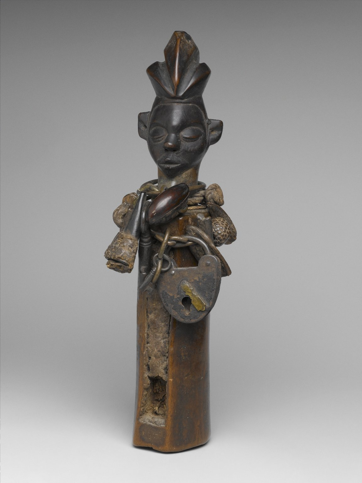 Hardwood figure in shape of a slit gong surmounted by a head. Hung with heavy wire and rope necklaces, on which are old European keys and padlock, bird beaks, seed pods and other material. Medicine packed in top of tri-crested headdress and slit in front of body. "Slit-drum".